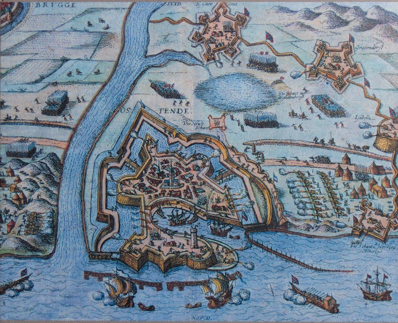 Siege of Ostend (1601-1604) by Spanish troops